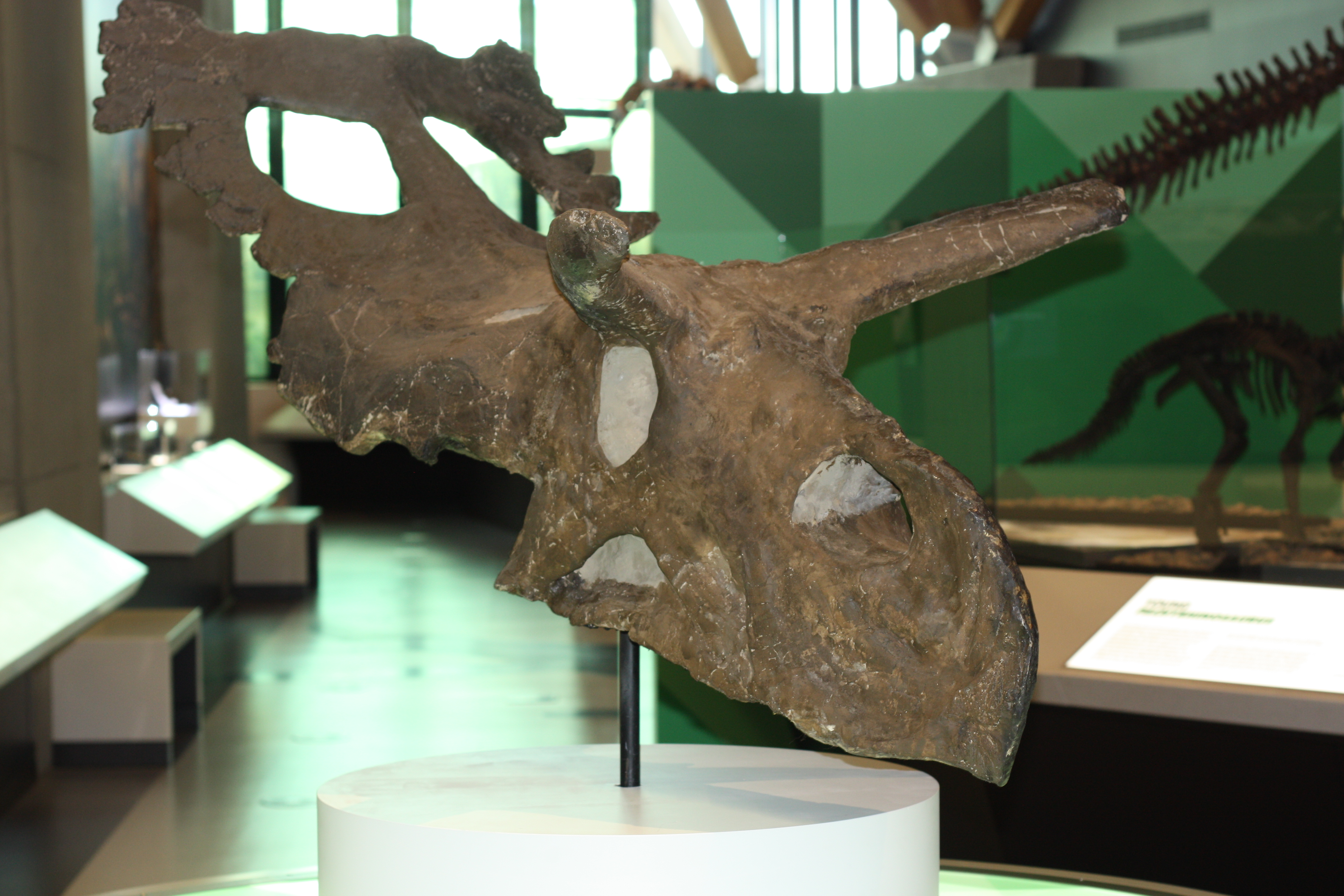 Philip J. Currie Dinosaur Museum's Albertaceratops Nesmoi